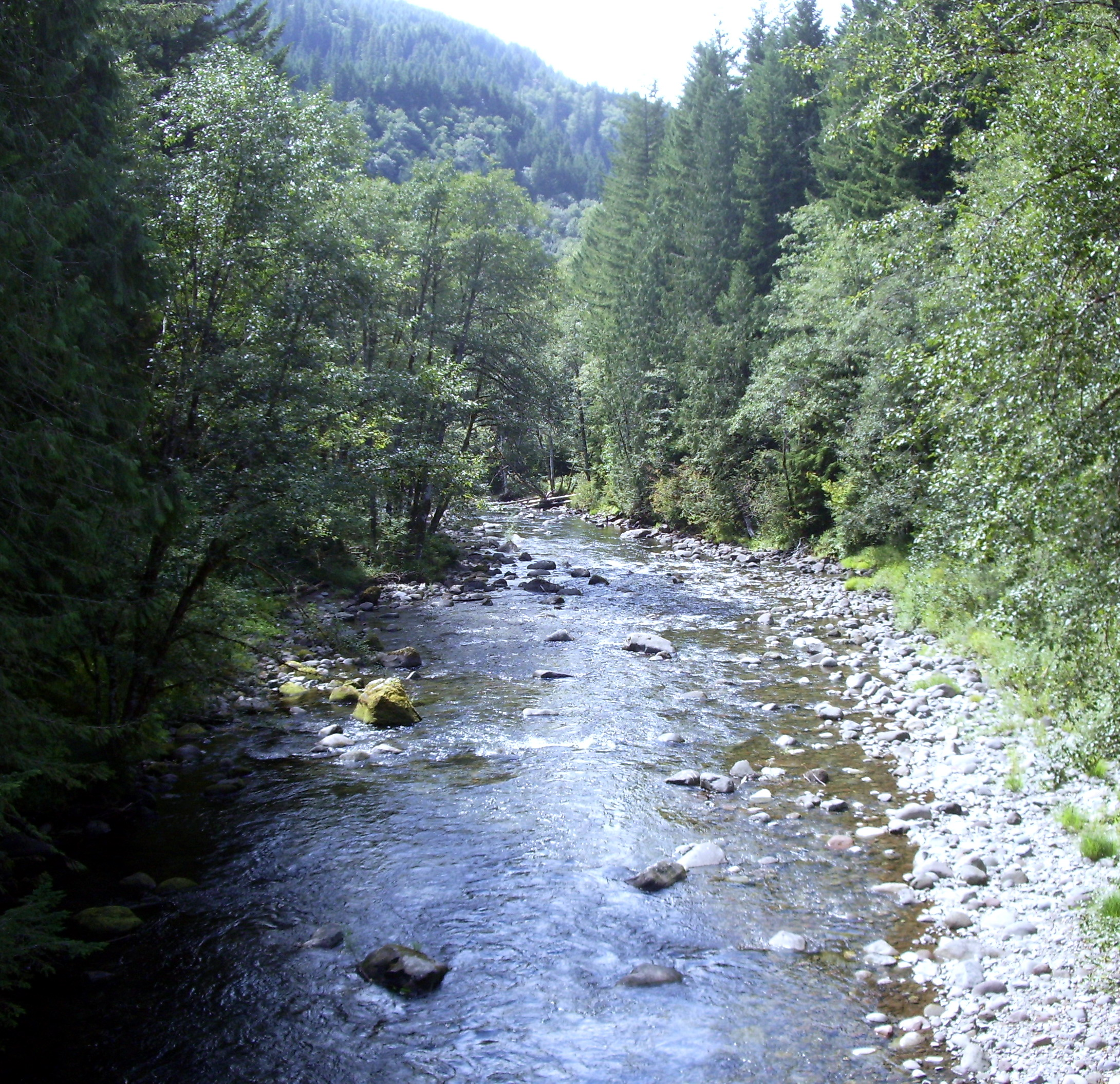 Salmon River at Wildwood Recreation Site seen looking west from the bridge between the wetlands trail and the stream watch trail.